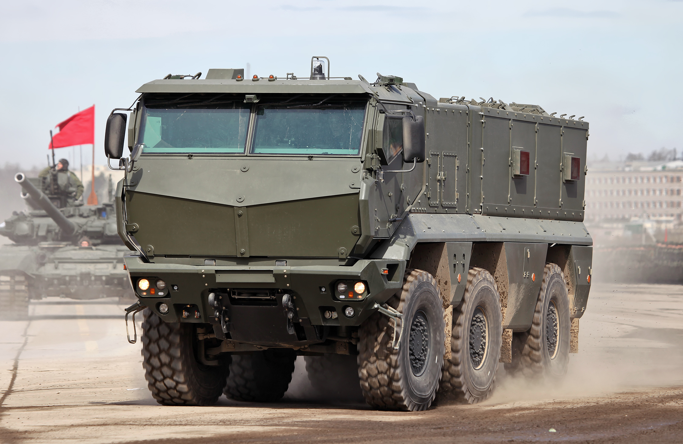 KAMAZ-63968 Typhoon-K MRAP vehicle